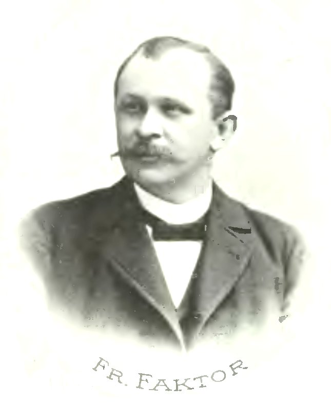 Portrait of František Faktor (1861-1911), Czech chemist, high-school teacher and writer of travelogues.